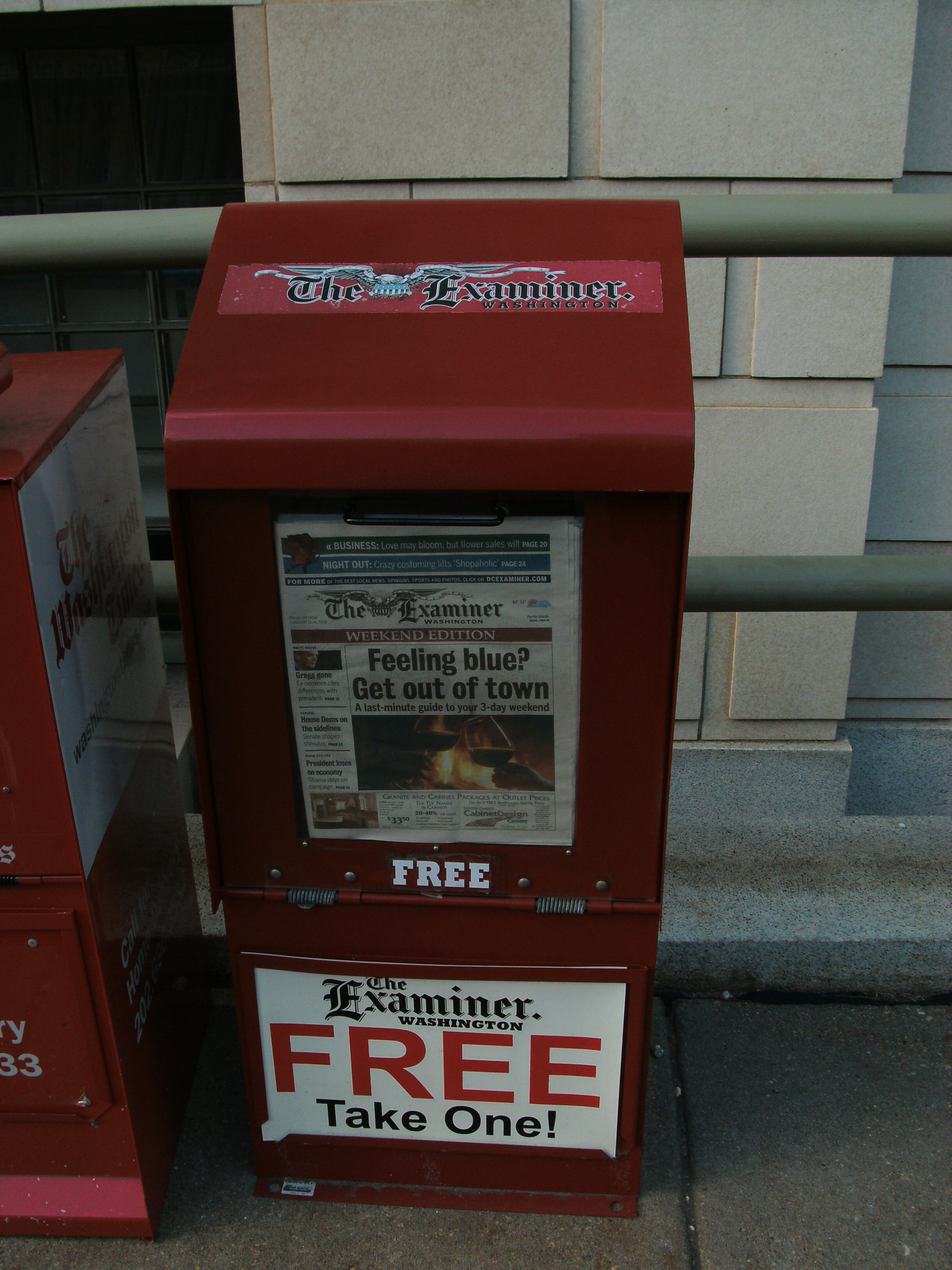 Washington Examiner vending machine